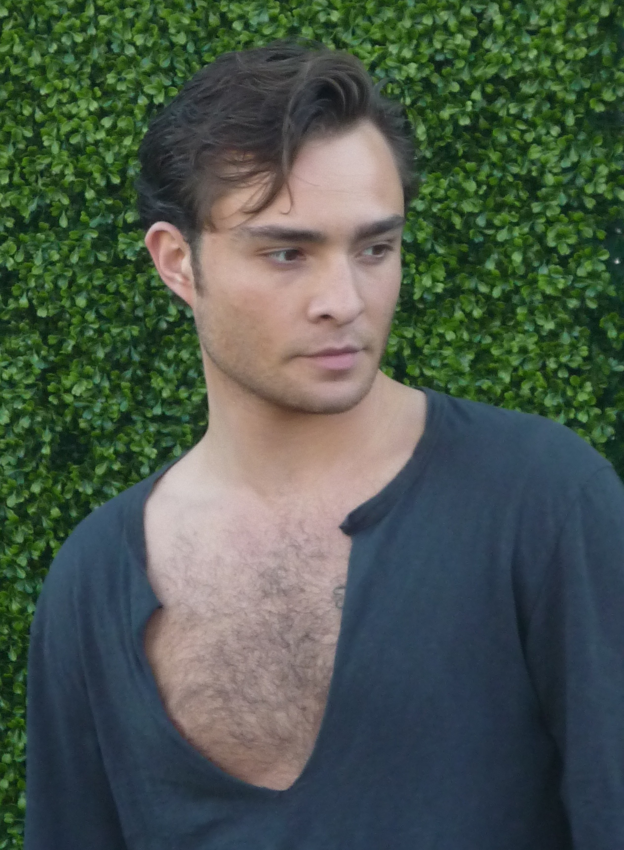 Actor Ed Westwick at 2010 CBS Summer Press Tour Party.